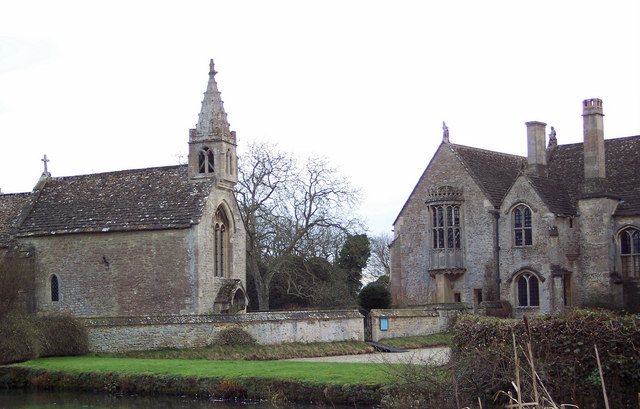 Great Chalfield Manor and Church The church is dedicated to All Saints and was built during the 14th, 15th and late 18th centuries and restored in 1914 by C H Biddulph-Pinchard.